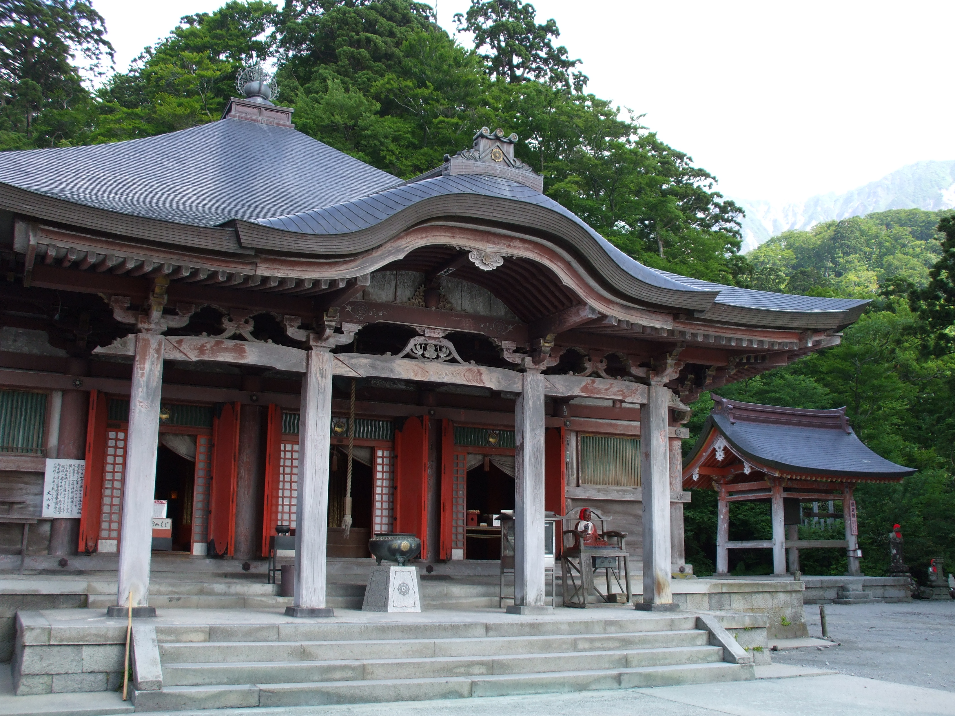 Daisenji Temple, at the foot of Mount Daisen, Tottori, Honshu, Japan.